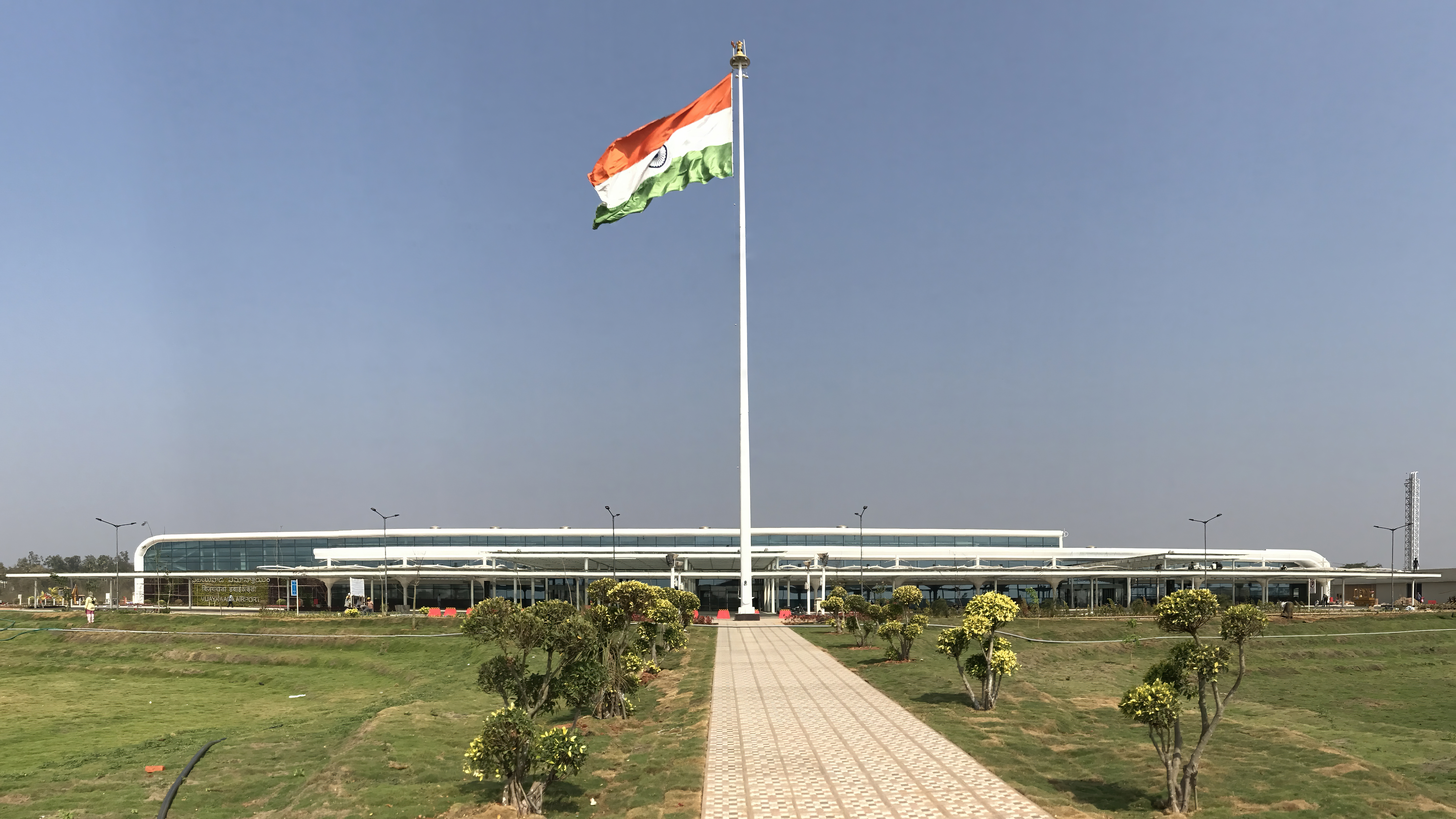 Airport New teeminal panorama